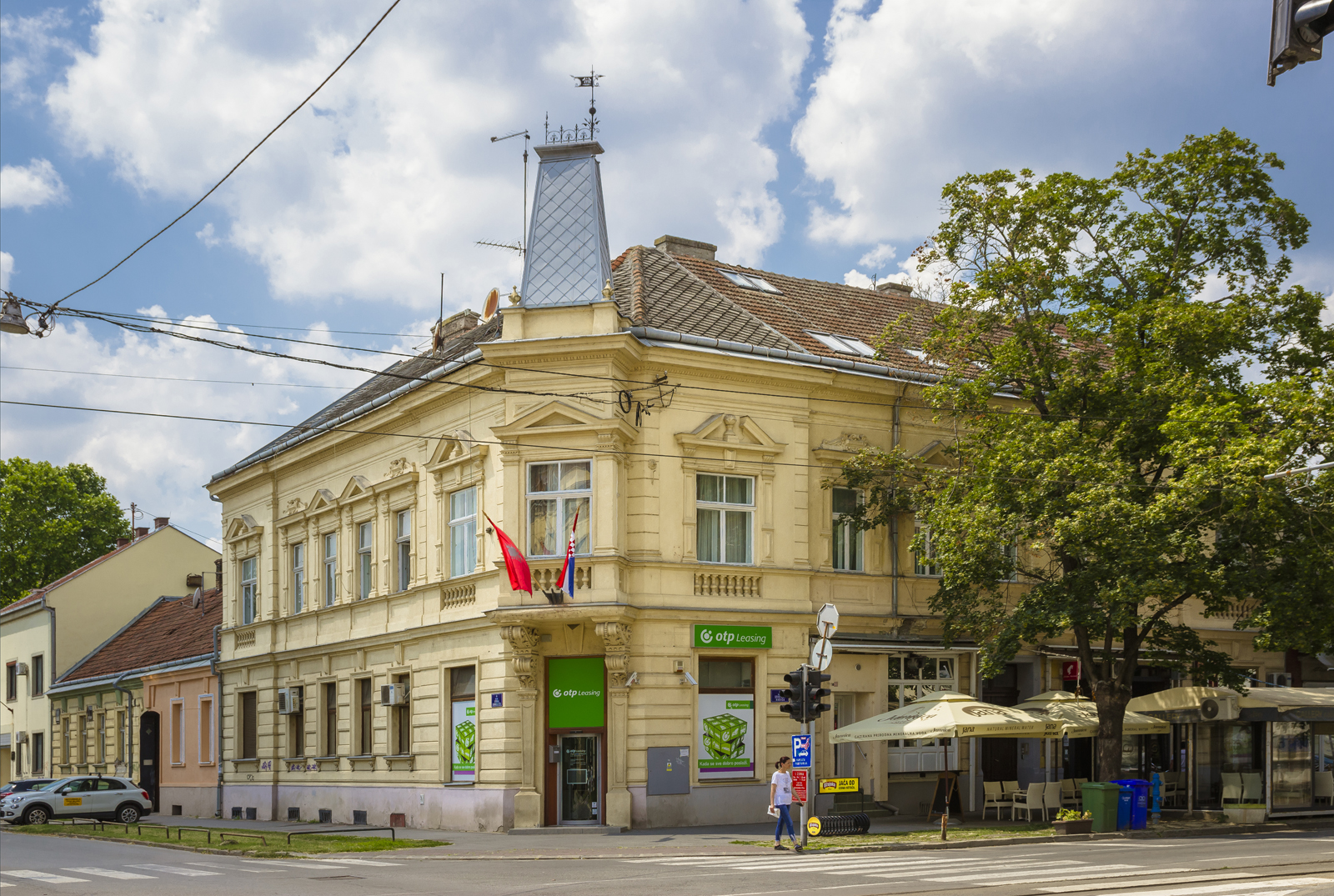 Albanian Consulate